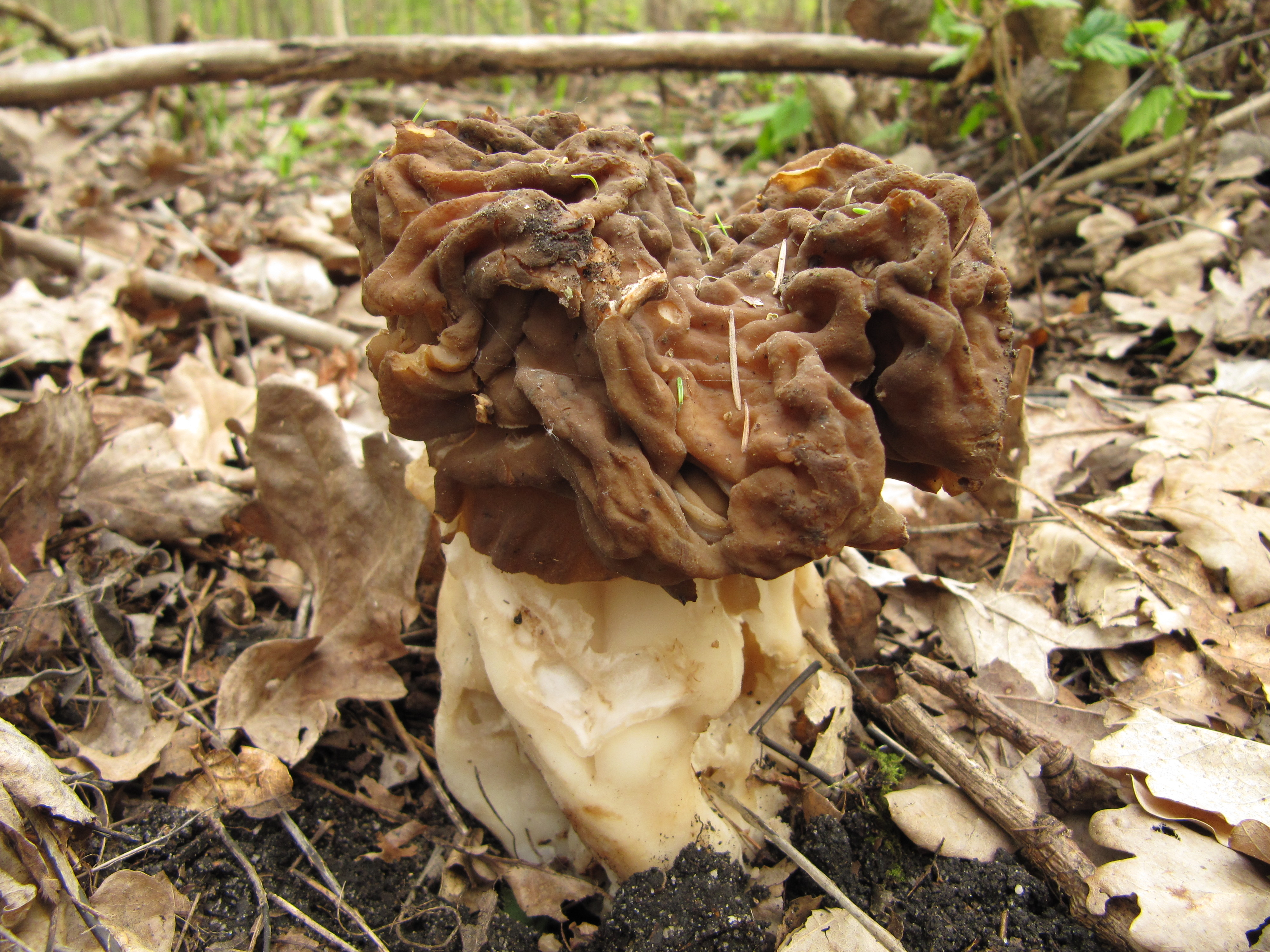 Gyromitra gigas